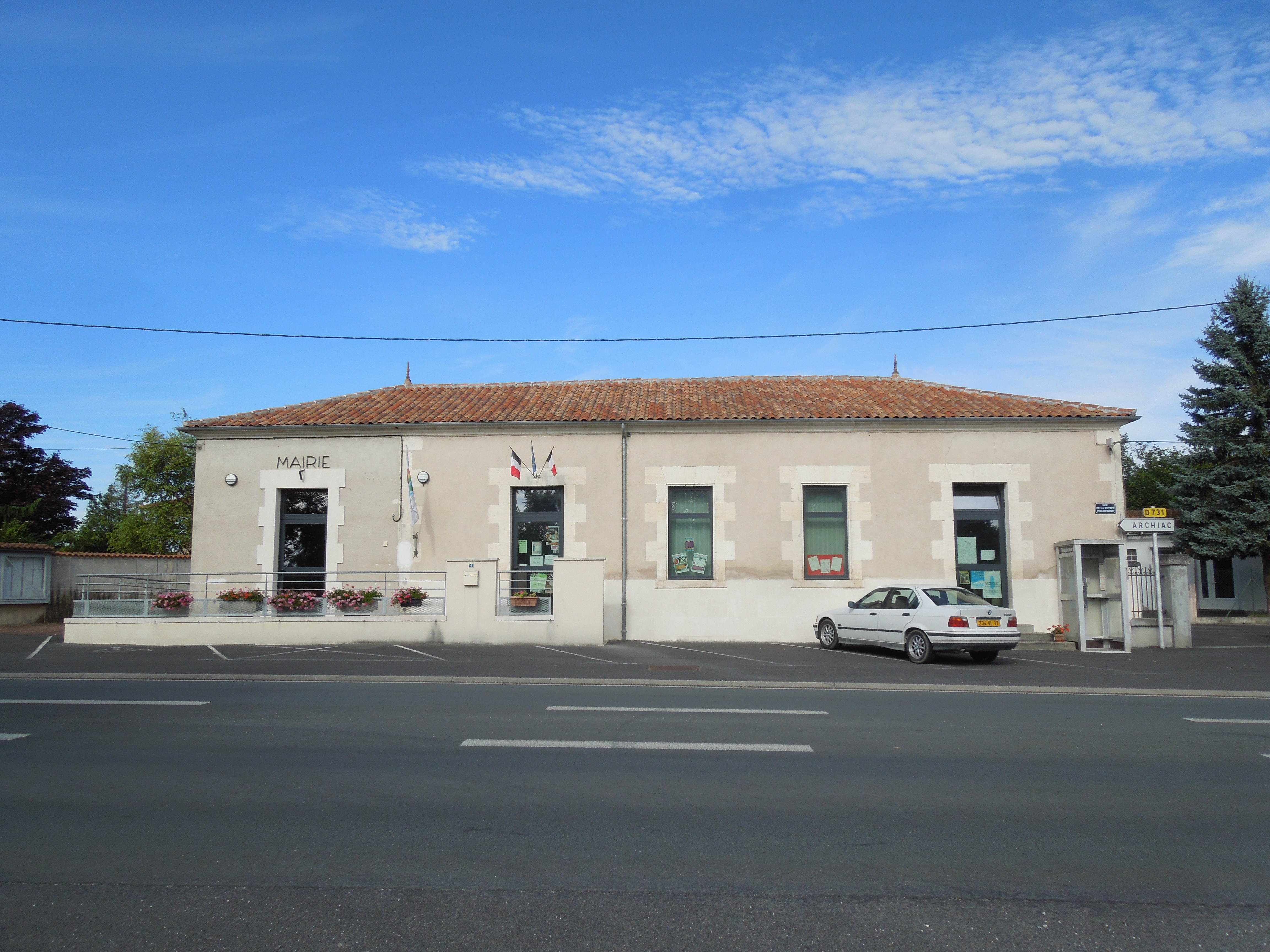 Cierzac, mairie